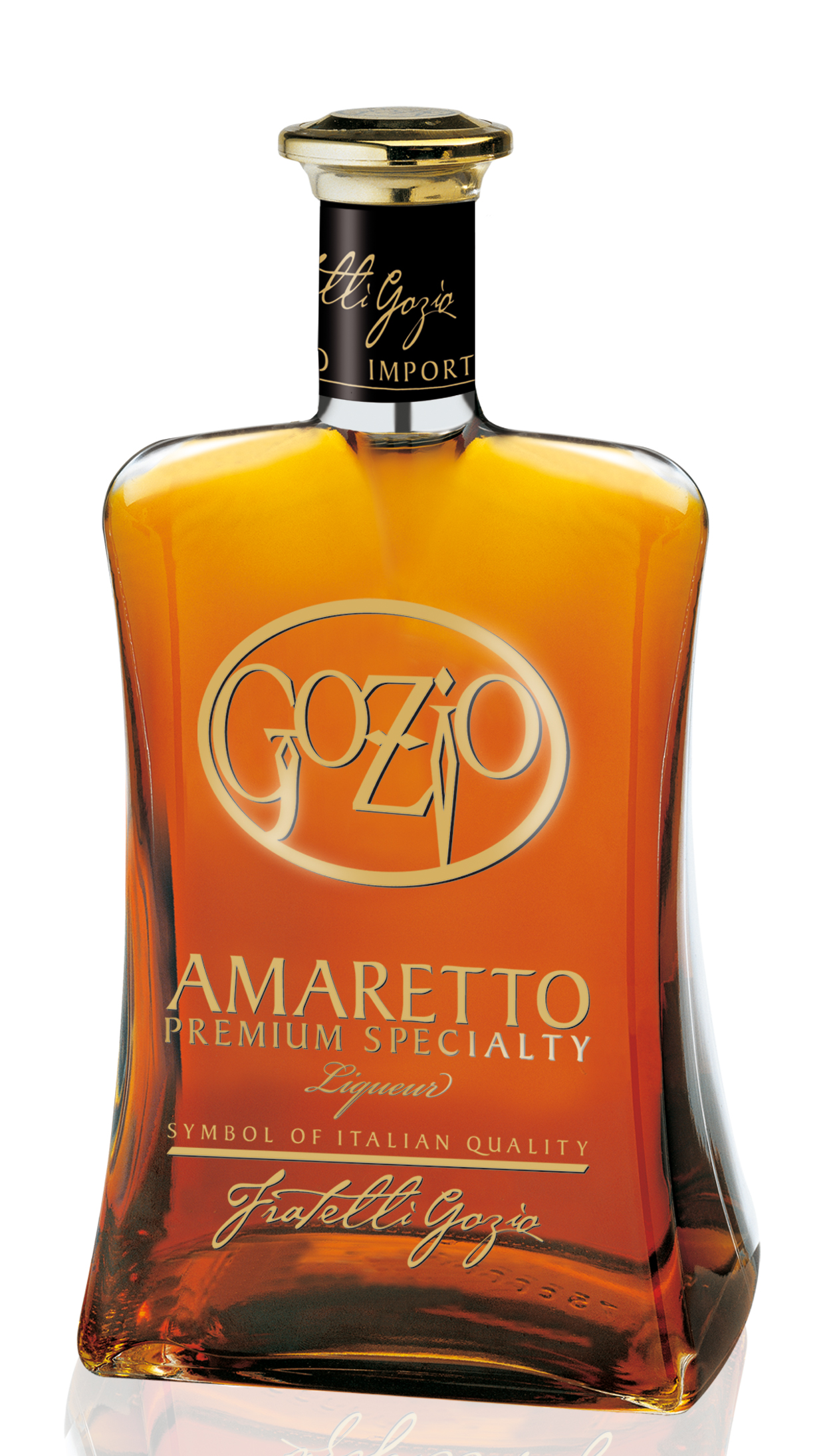 Gozio Amaretto bottle shot